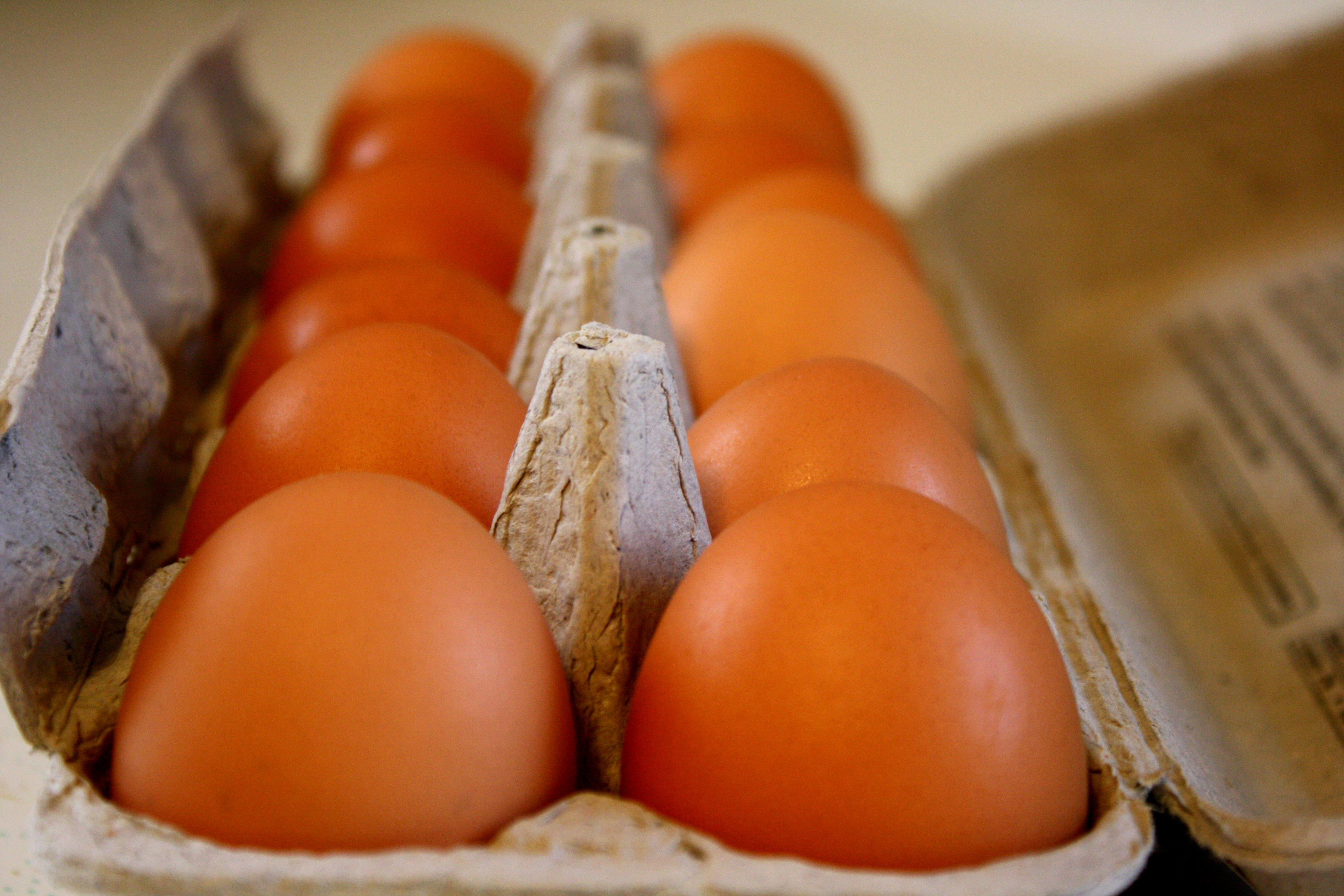 The photo of brown eggs kept together. This photo is free for any use.